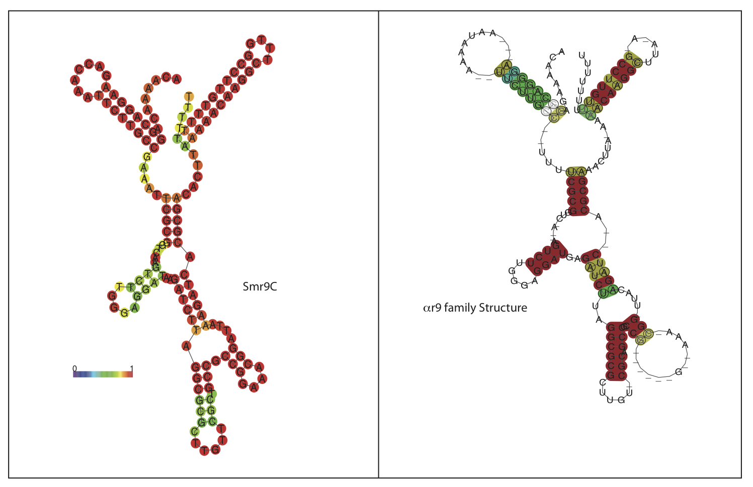 9C alignment conservation